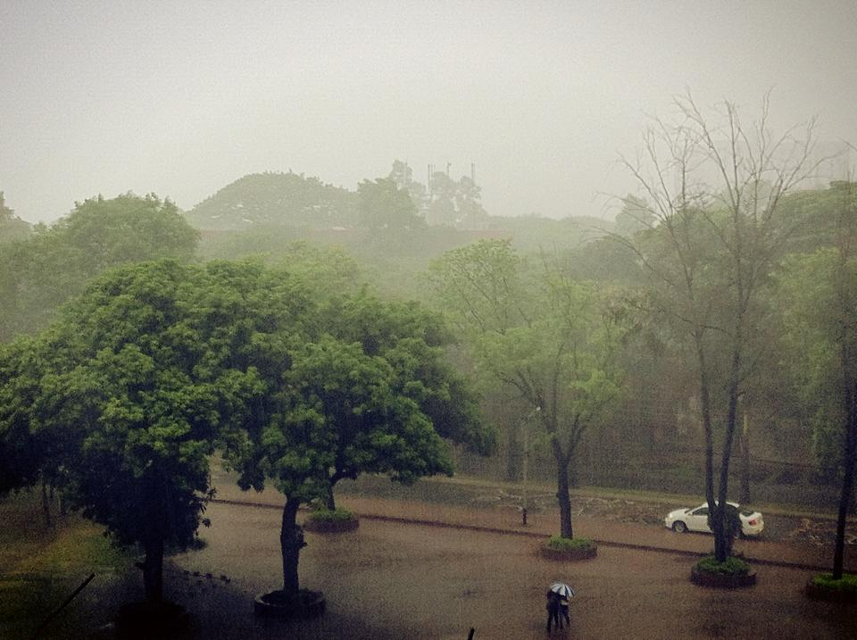 Rainy view from MIST Academic Tower, Dhaka, Bangladesh